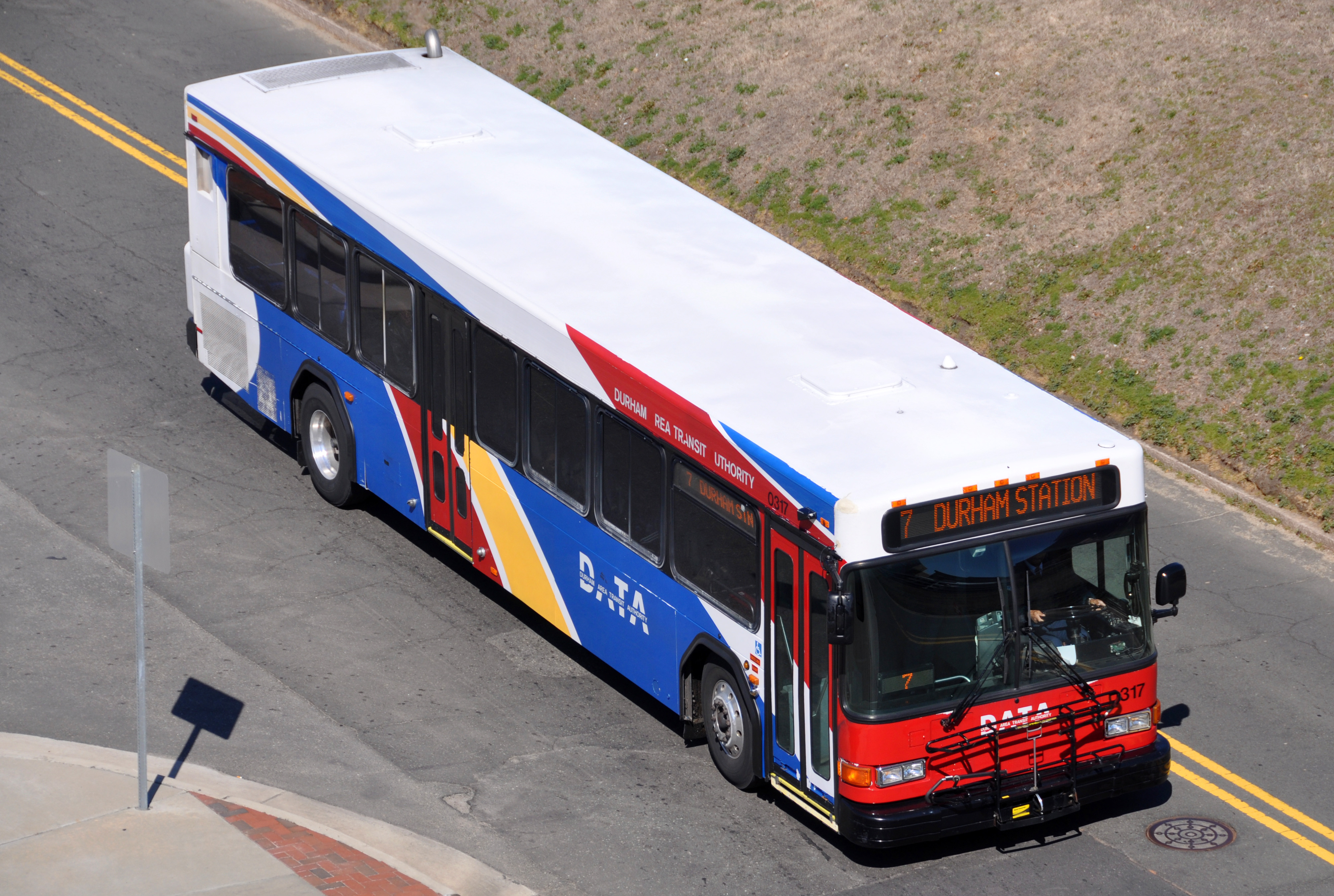 DATA bus